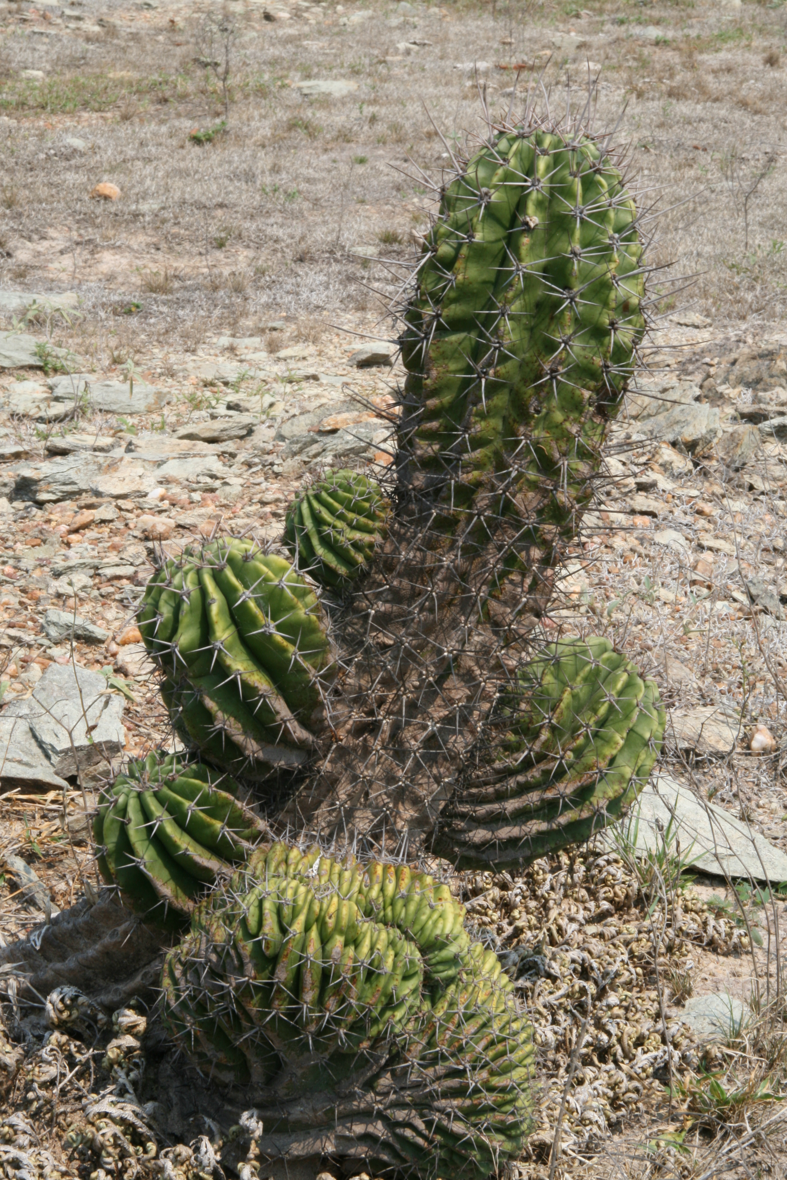 adult plant in habitat, SW Mato Grosso doSul, Brasil